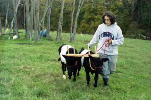 Debbie, one of the founders of the Living Energy Farm, trains the young oxen that will one day plow LEF's fields.